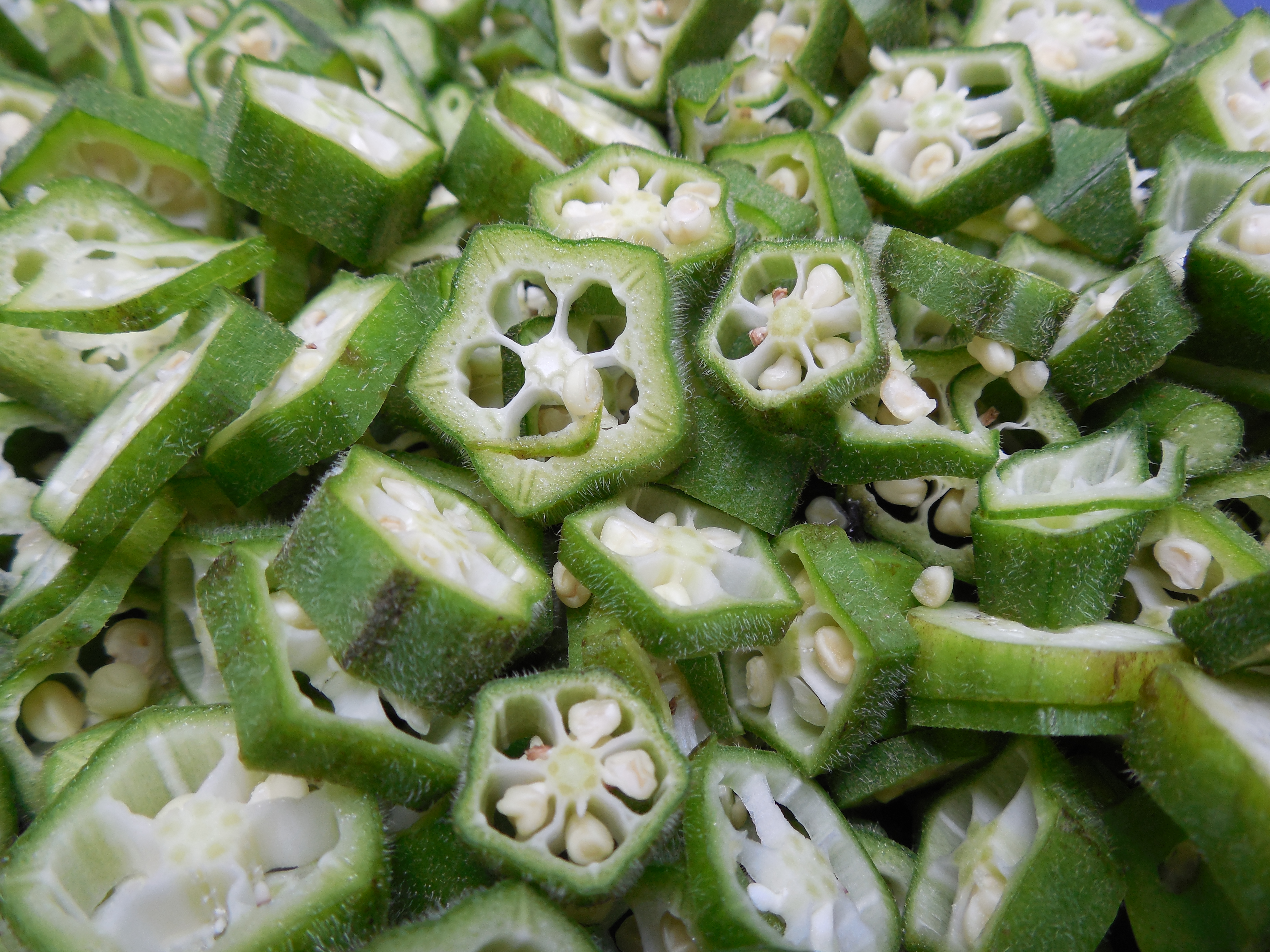 Lady's fingers (Okra) sliced.